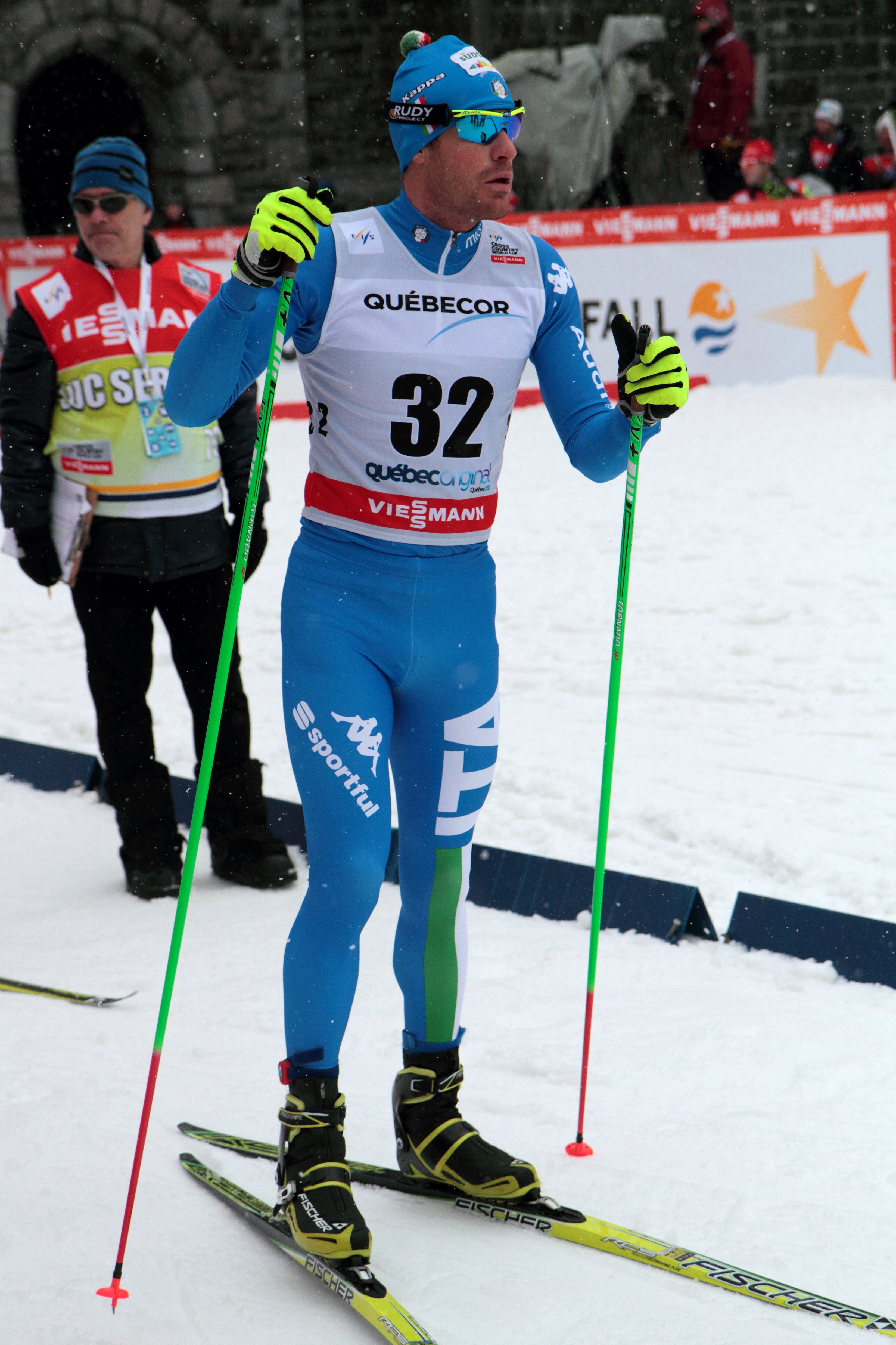 David Hofer, FIS Cross-Country World Cup 2012, Quebec, Canada.